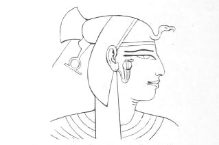 Drawing of the ancient Egyptian queen Sitre, wife of Ramesses I and grandmother of Ramesses II, from her Theban tomb QV38.